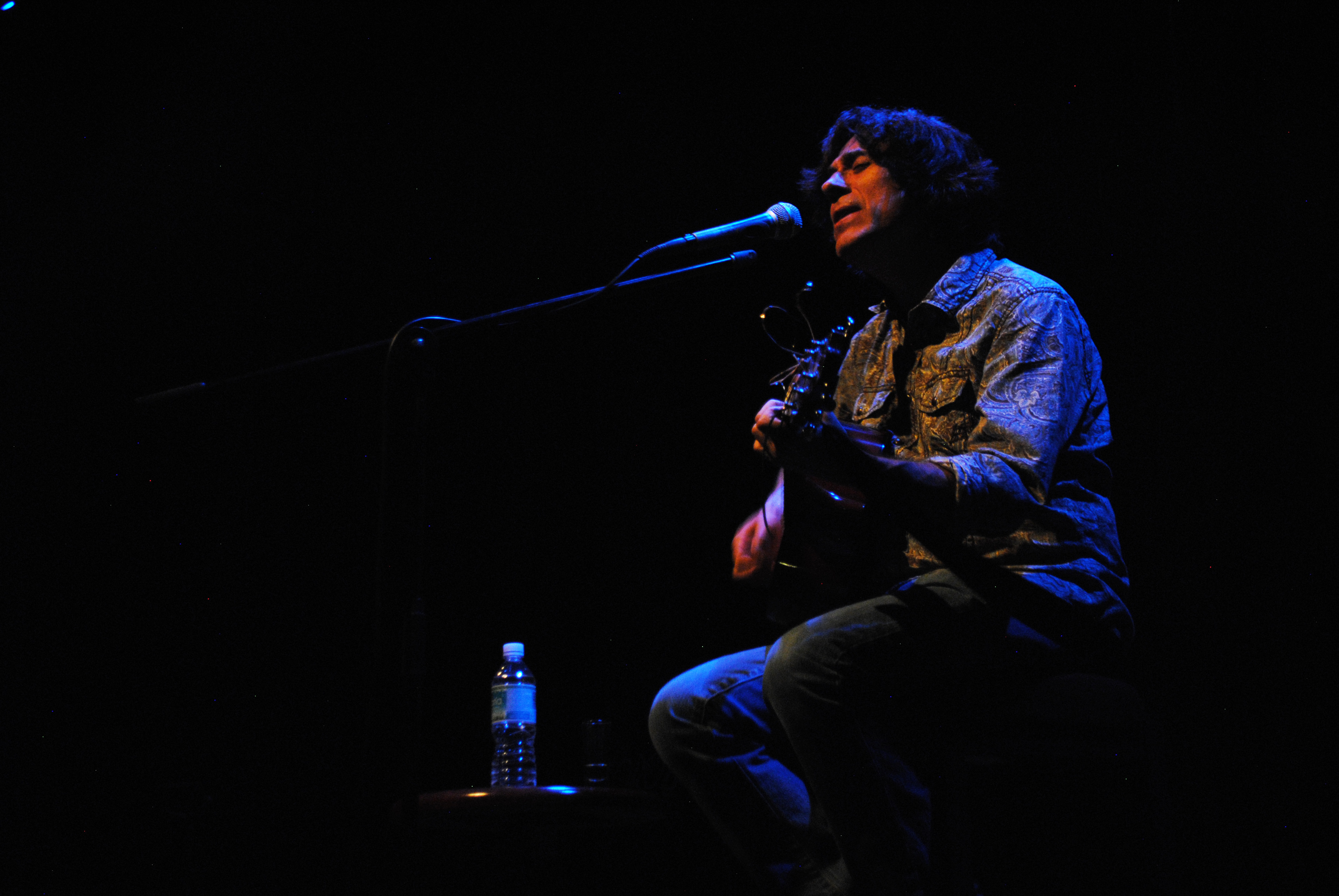 Gerardo Enciso is a Mexican composer and musician. Photo taken at Foro del Tejedor, Mexico City.